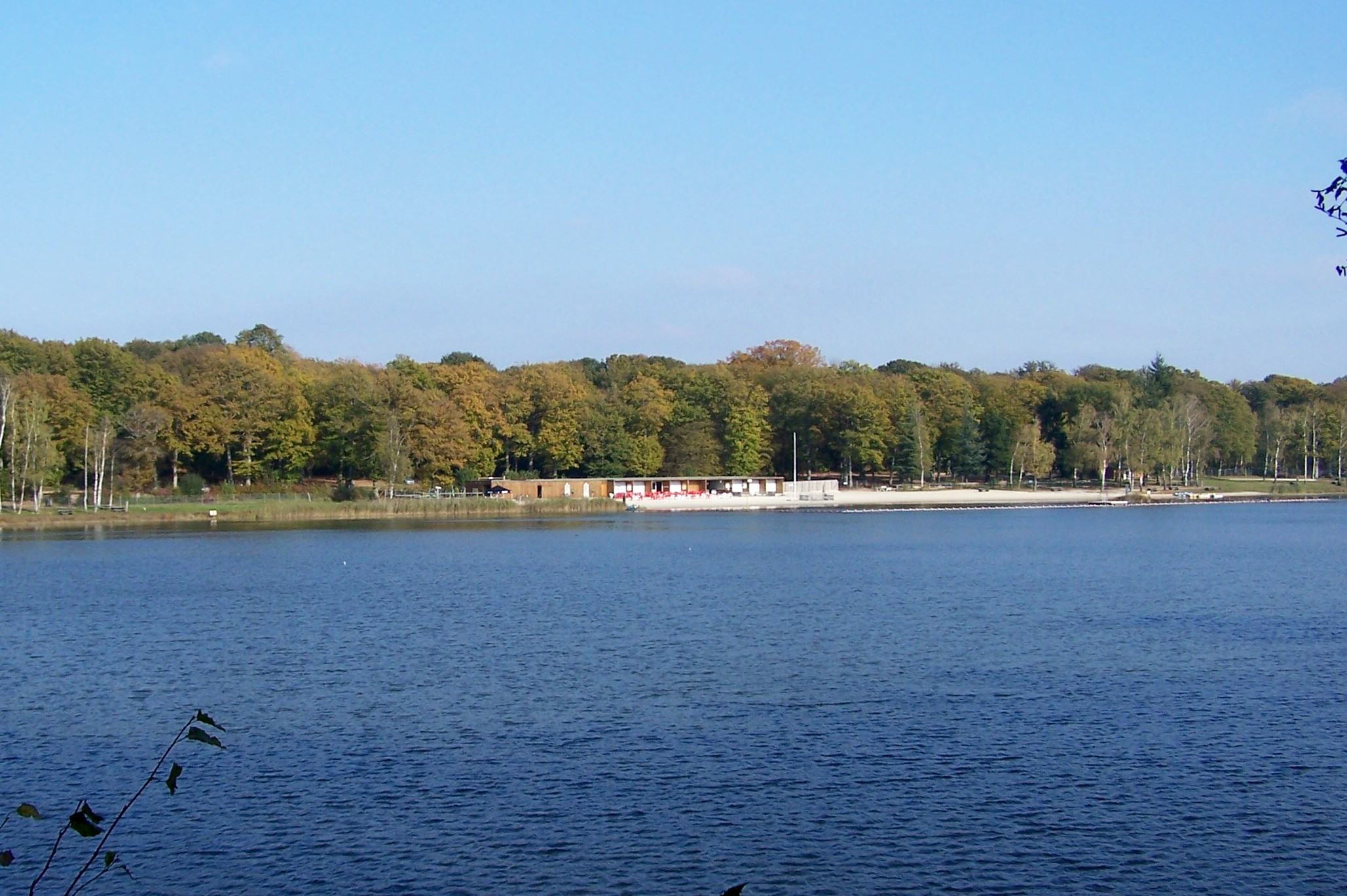 Lake of Hollande in the forest of Rambouillet (Yvelines, France) - sight of the leisure base